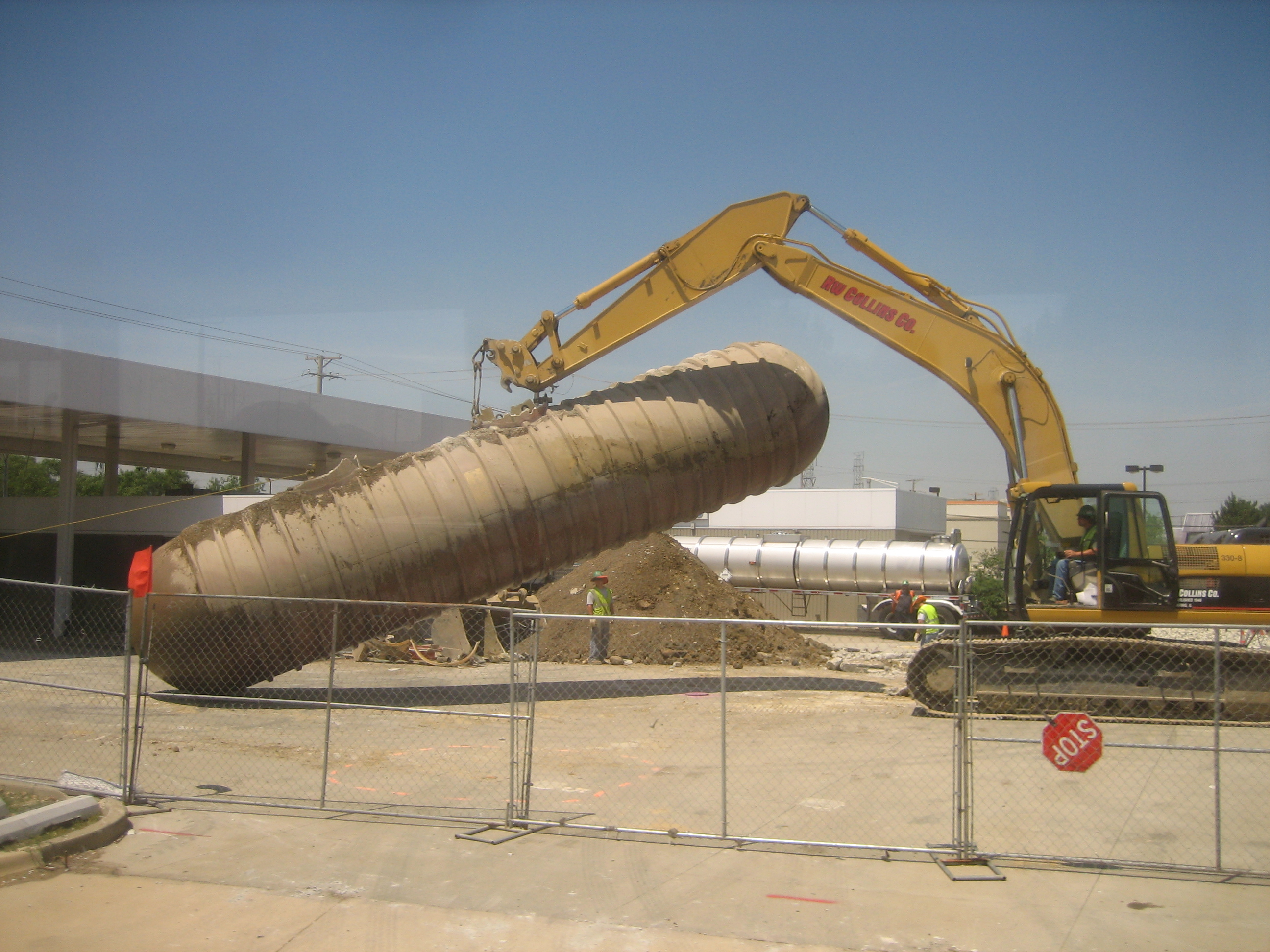 They finally took the gas tank out for this gas station.